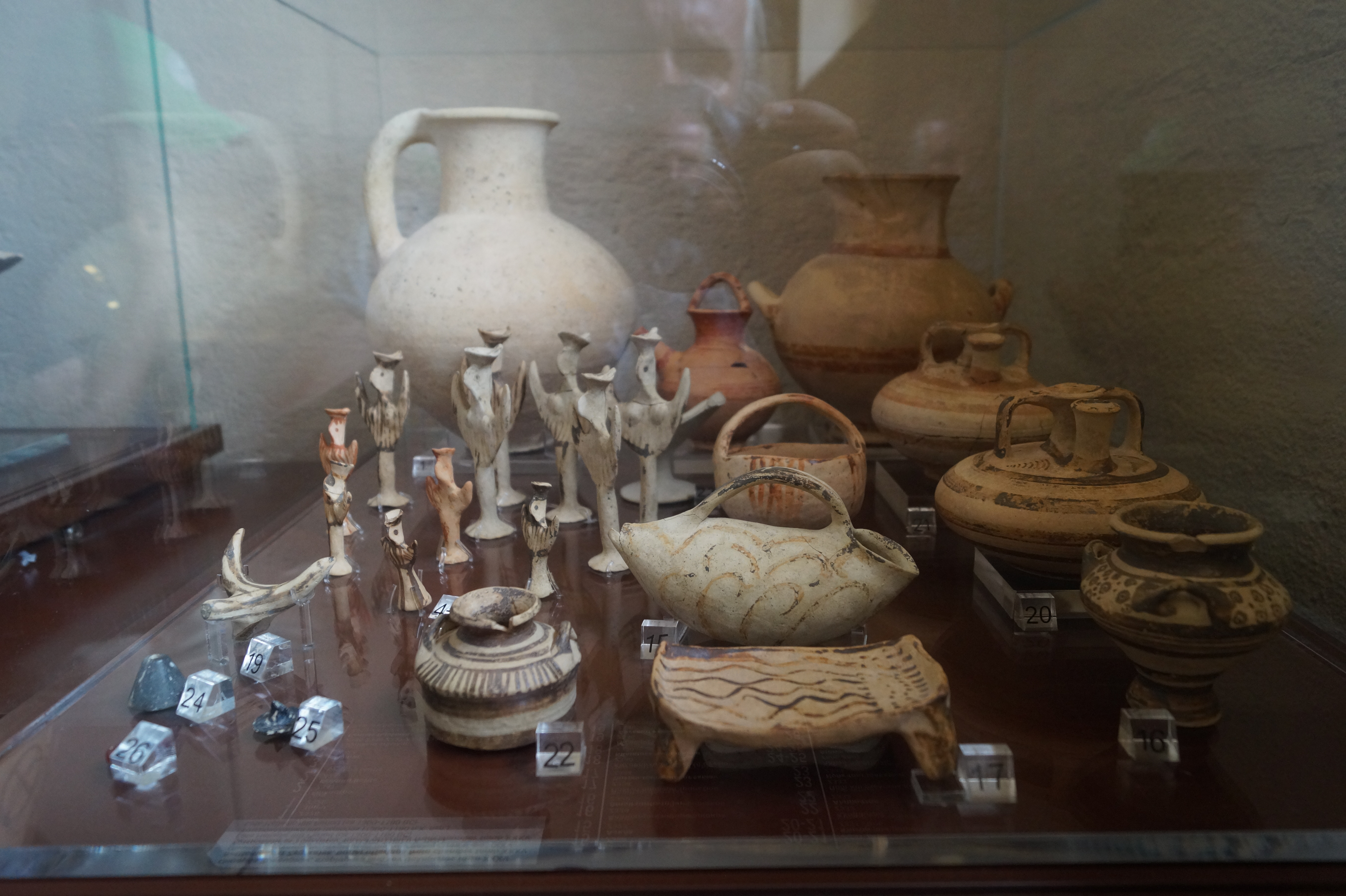 Archaeological Museum of Corinth, Corinthia, Greece: Burial offerings from chamber tomb XXXV near Zygouries (LH III B, 1300-1180 BC)